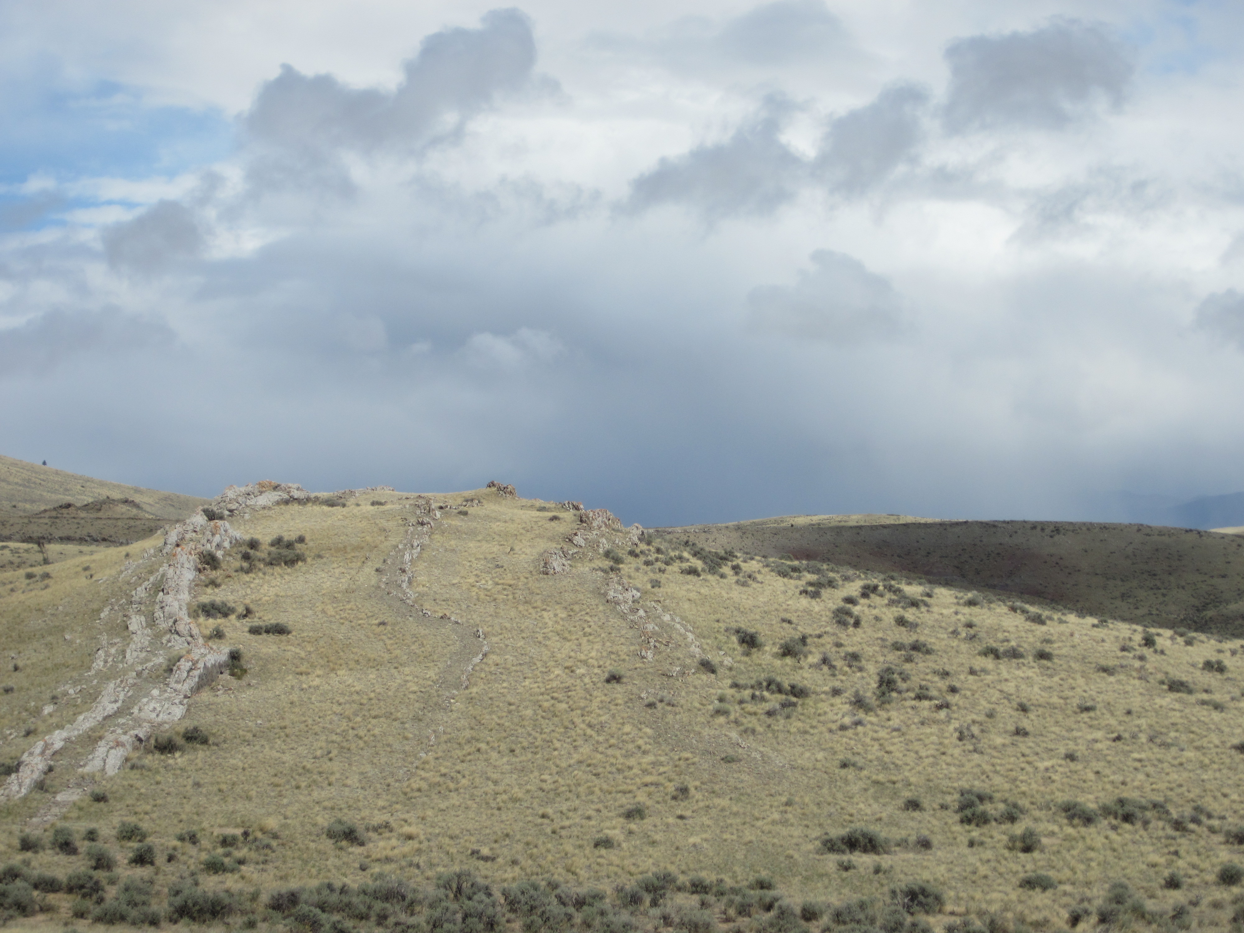 An outcrop of the Gastropod Limestone of the Kootenai Formation, in western Montana